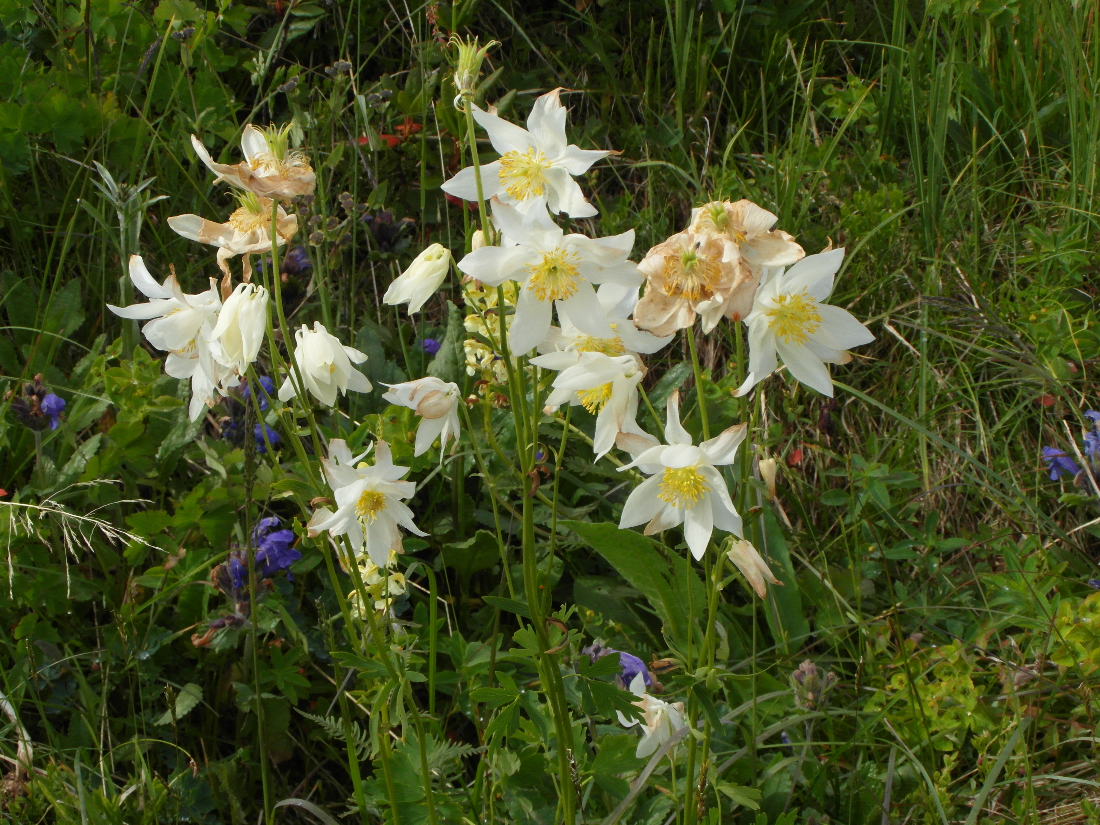 Flowering white Aquilegia glandulosa